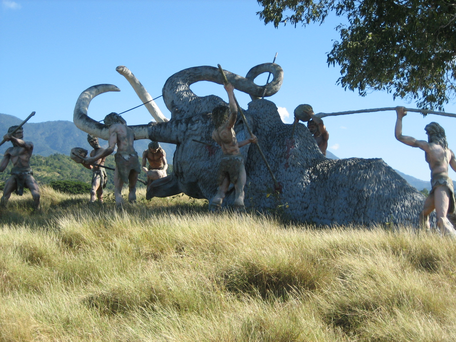 Prehistoric scene at the Baconao park in Santiago de Cuba